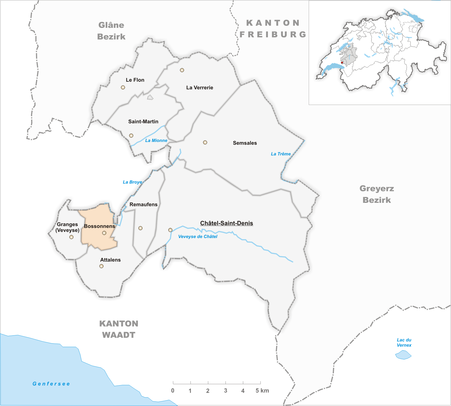 Municipality Bossonnens